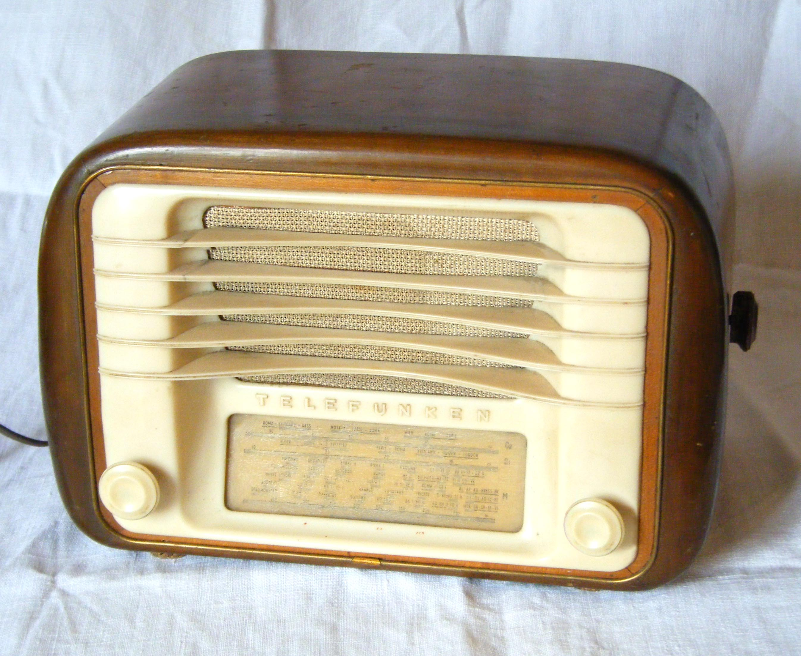 Old radio telefunken about 1950